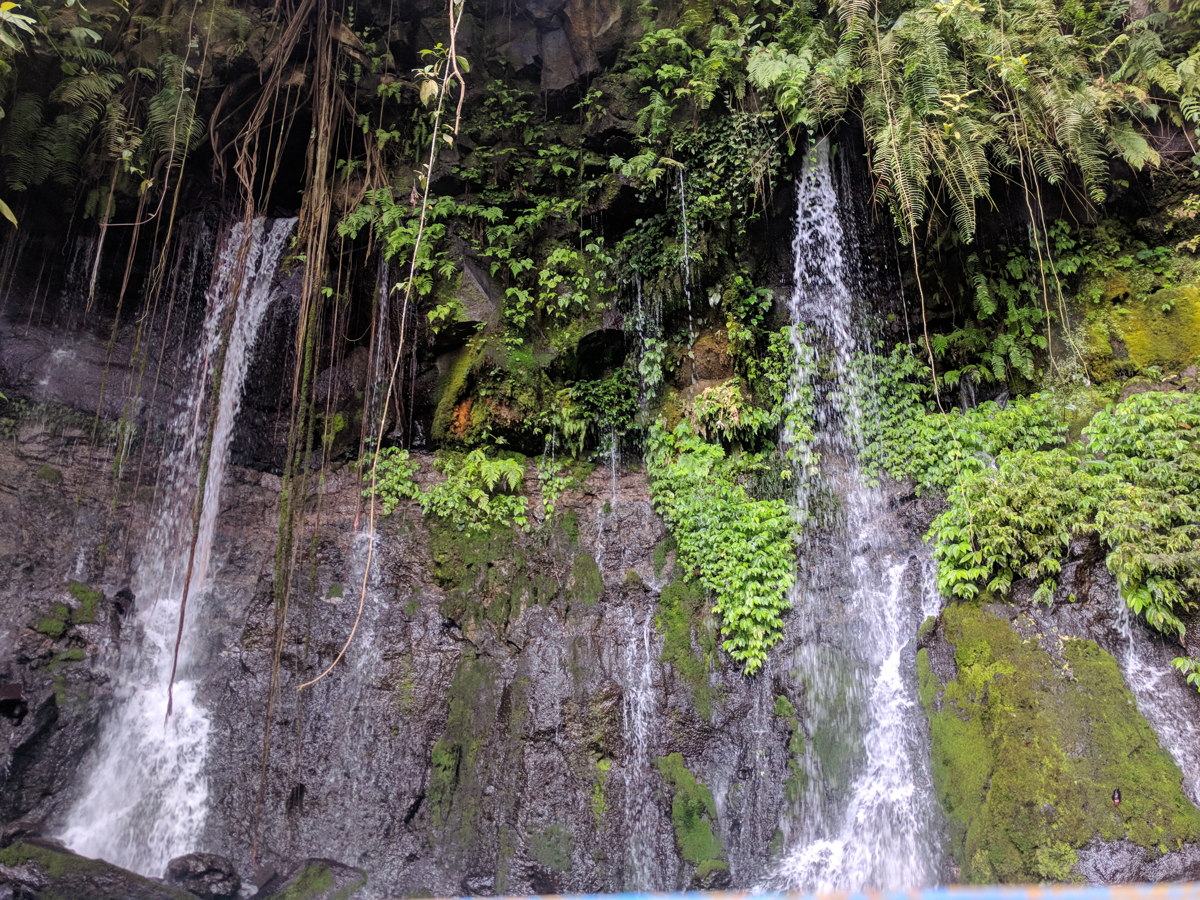 Waterfall at Our Lady of Grace Shrine located in Sasse-Buea in the South West Region of Cameroon